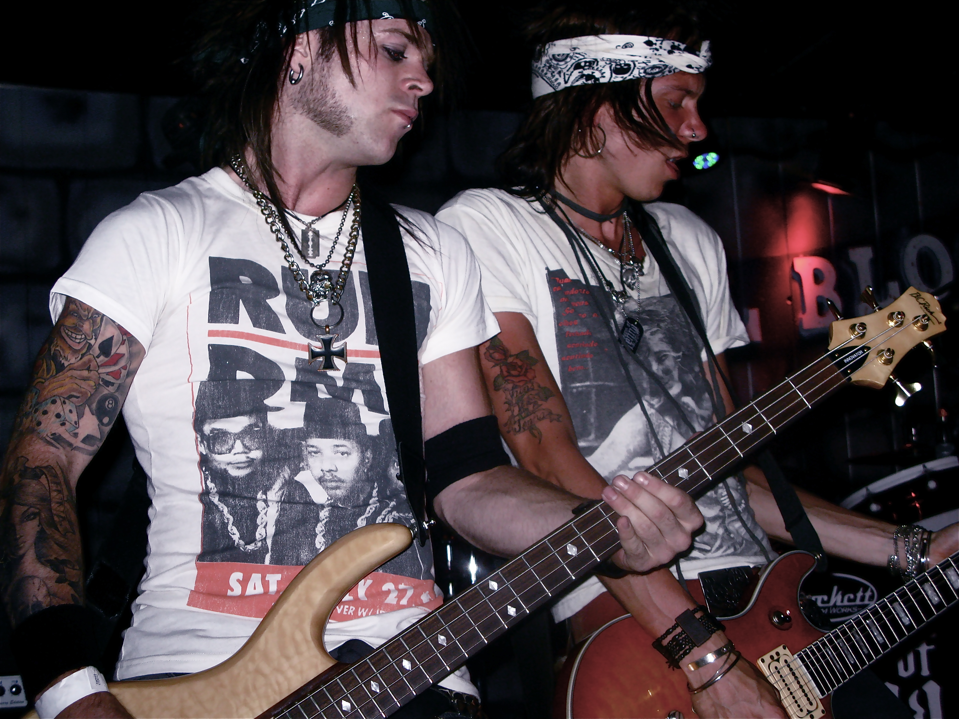 i took this photo at a concert in 2008..